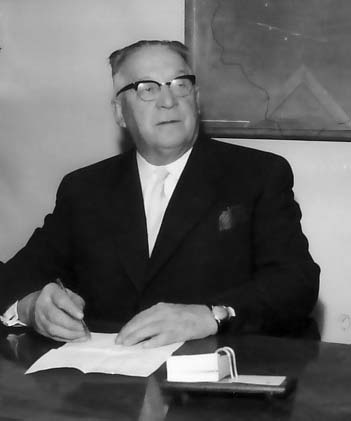 Lauri Koivisto (1893–1978), Finnish General Motors retailer, owner of L. Koiviston Autoliike Oy (1927–1974) in Seinäjoki, Finland, pictured here in 1962